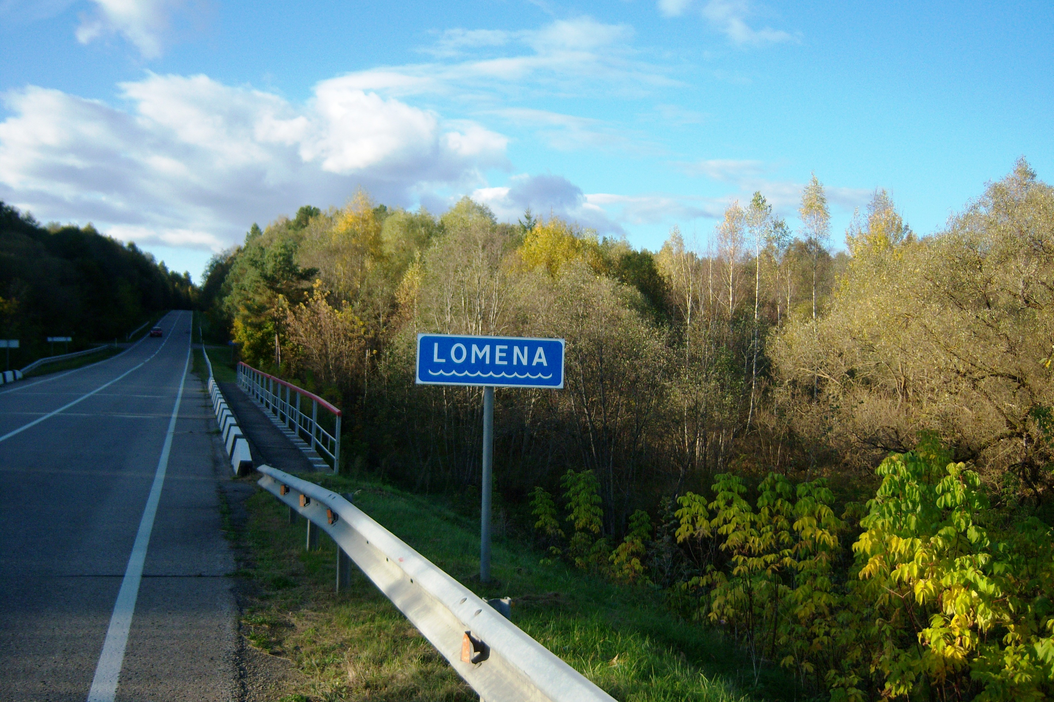 Lomena River by the Road Jonava-Elektrėnai, Lithuania